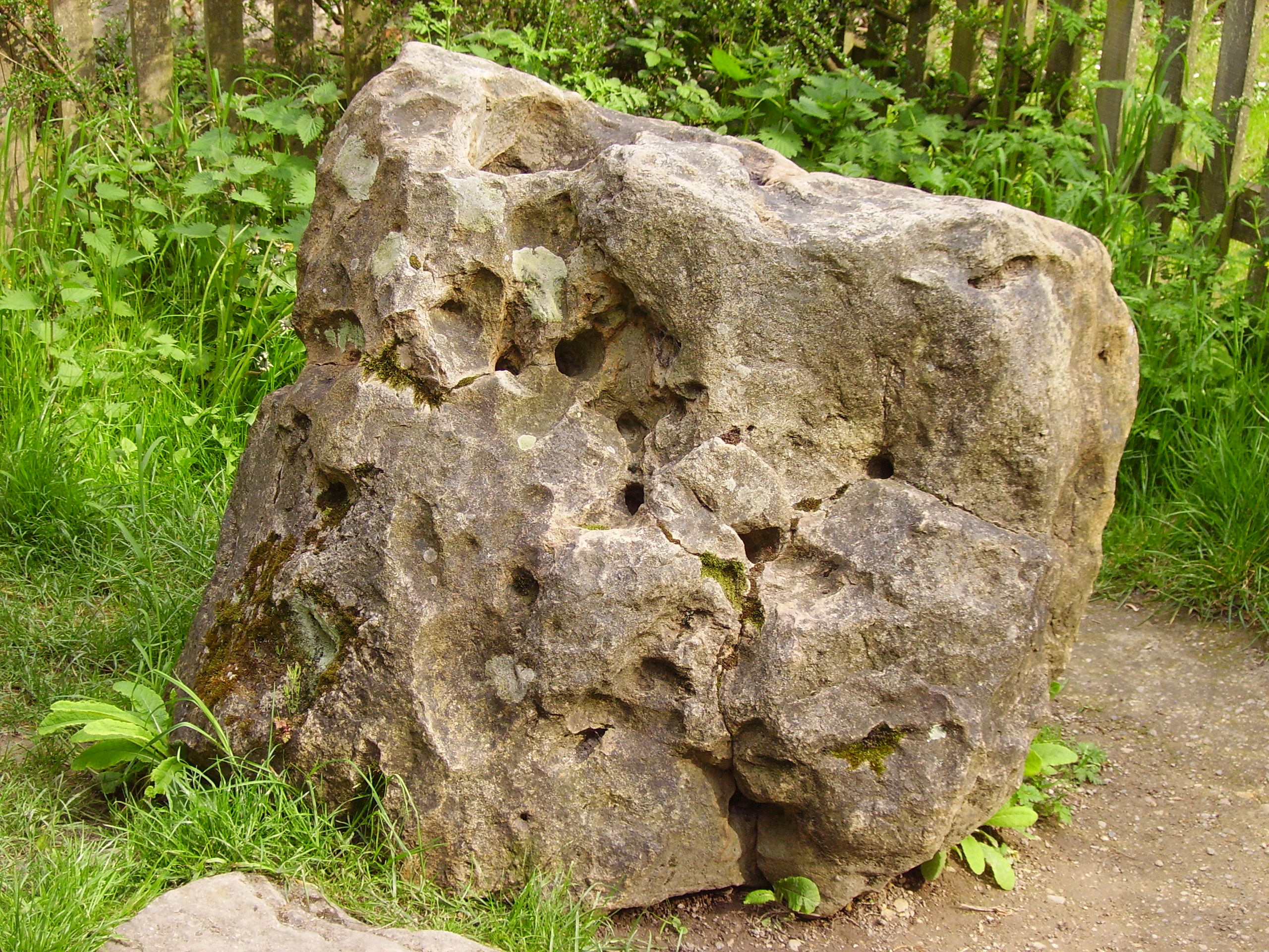 The Blowing Stone, Kingston Lisle, Oxfordshire (formerly Berkshire)